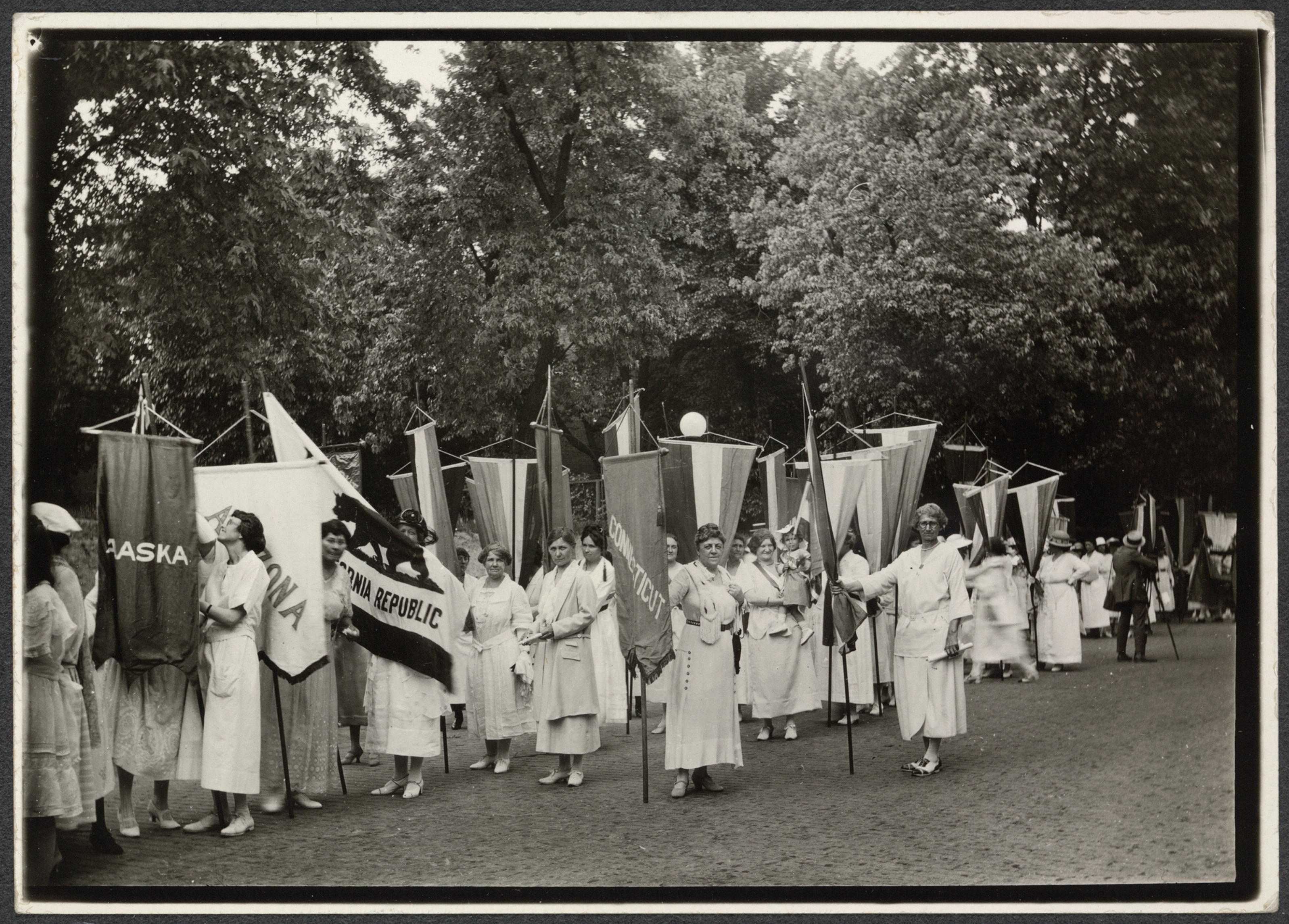 Photograph of National Woman's Party members assembling in street with banners. Among the banners are those reading "Nebraska," "California Republic," Connecticut." Male photographer with camera on tripod visible far left, trees in background.